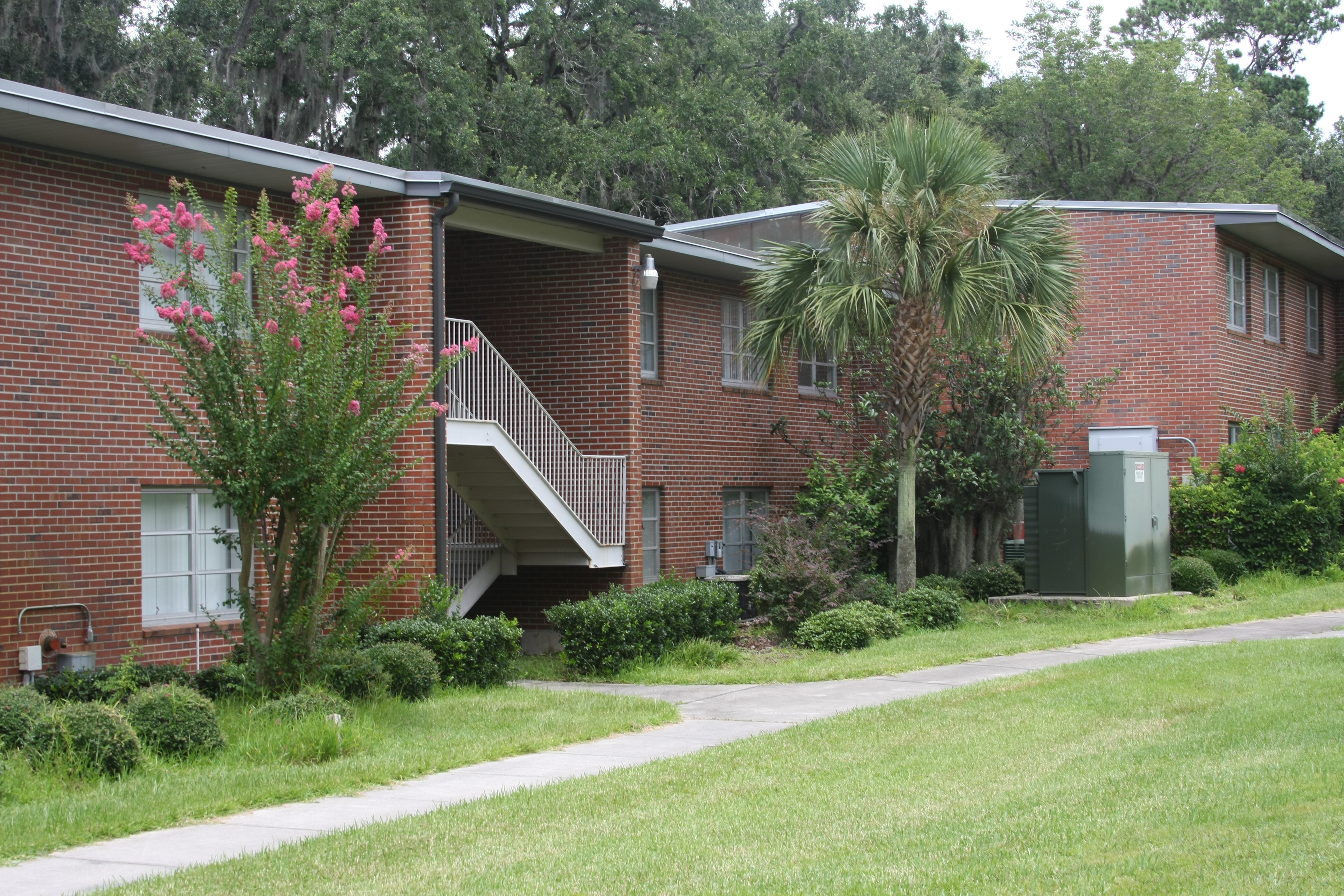 Schucht apartments, formerly used for graduate and family housing, this is the only remaining building in the complex. It is now used by Shands to house patients.